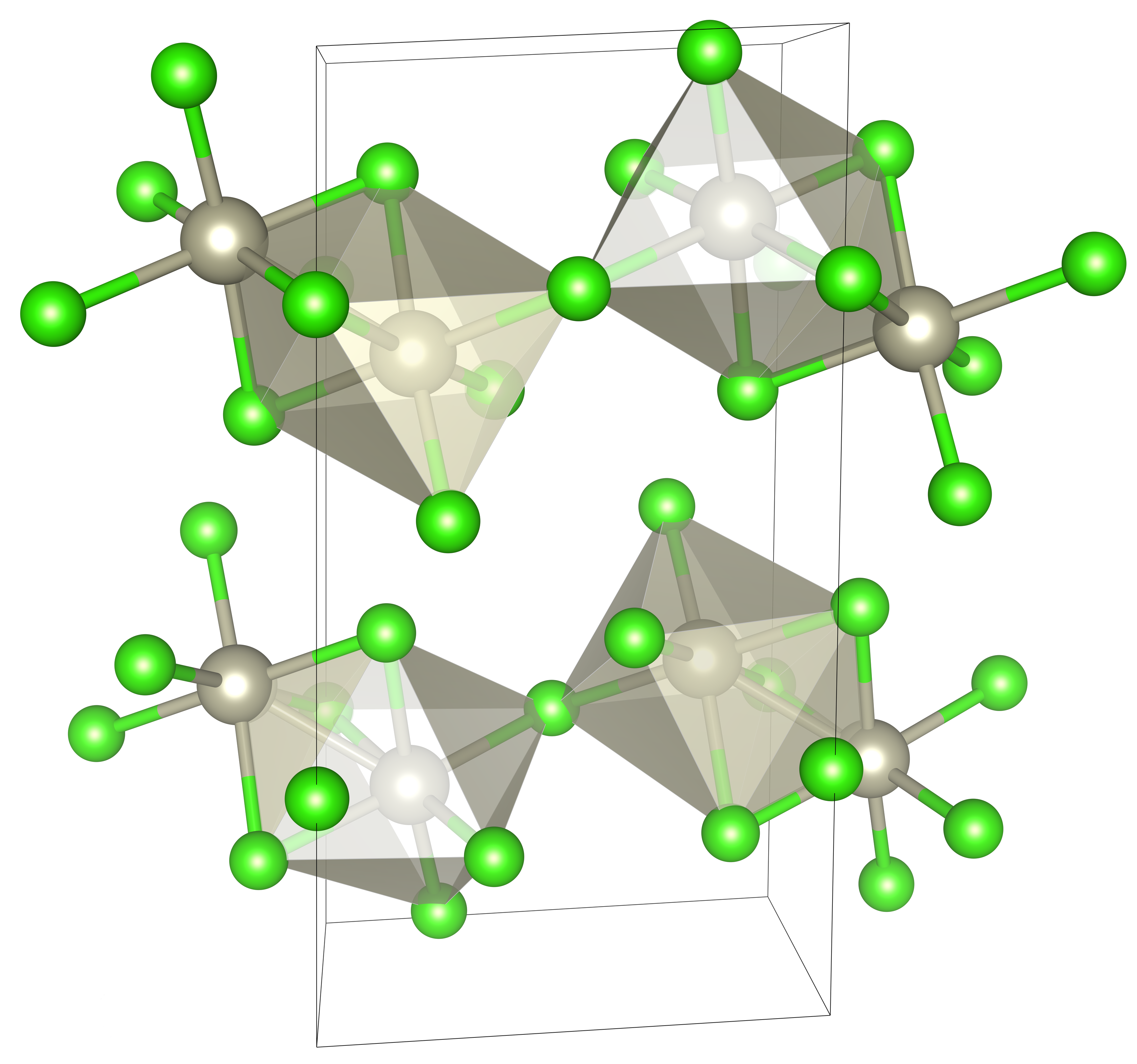 Unit cell of β-Rhenium(IV) chloride. Created with VESTA. Source of crystall structure